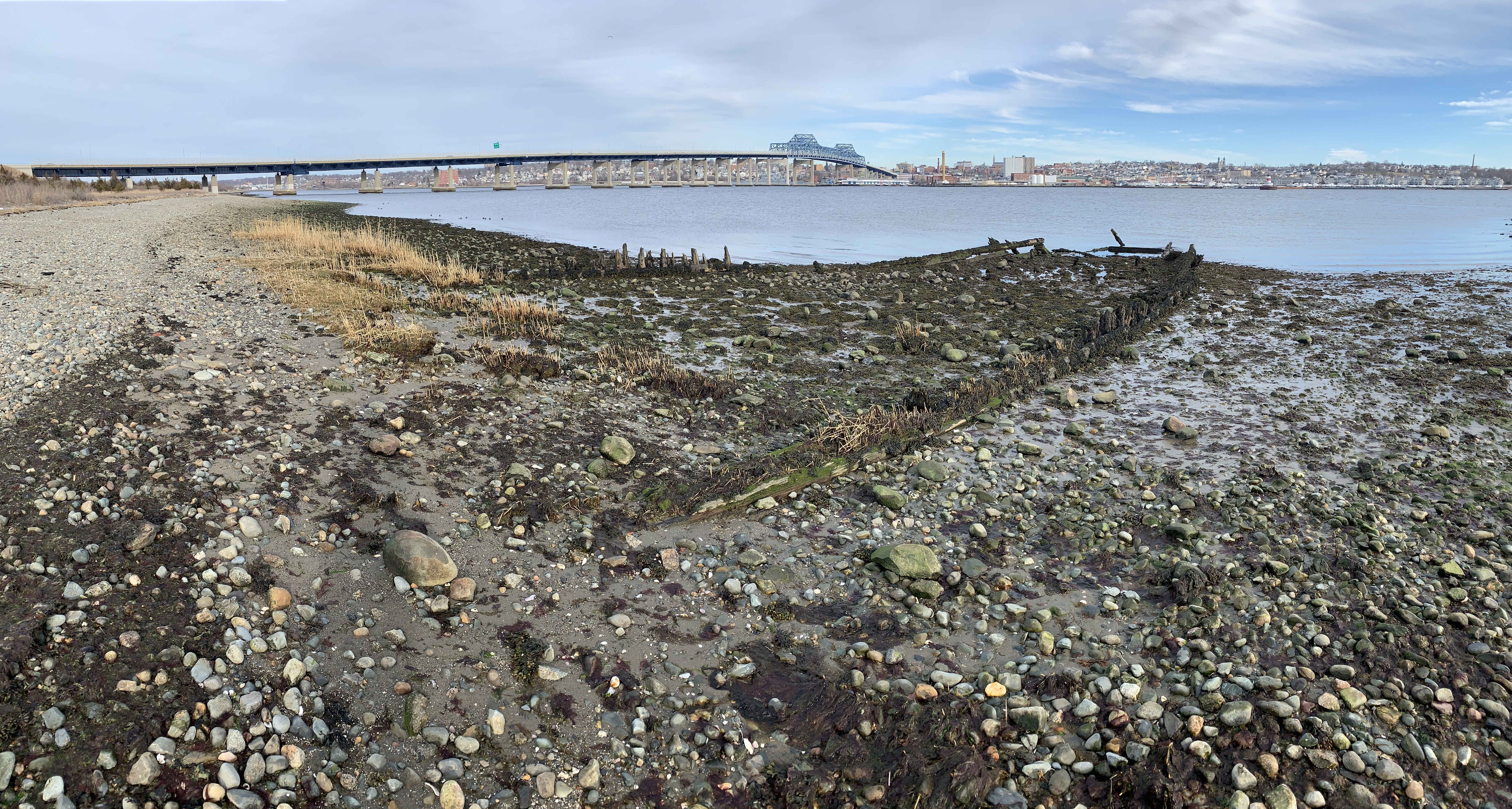 Panoramic image of the Wreck of the City of Taunton, taken on March 14, 2020, at 5:00pm. The tide here is very low, so the ship is more visible than usual.